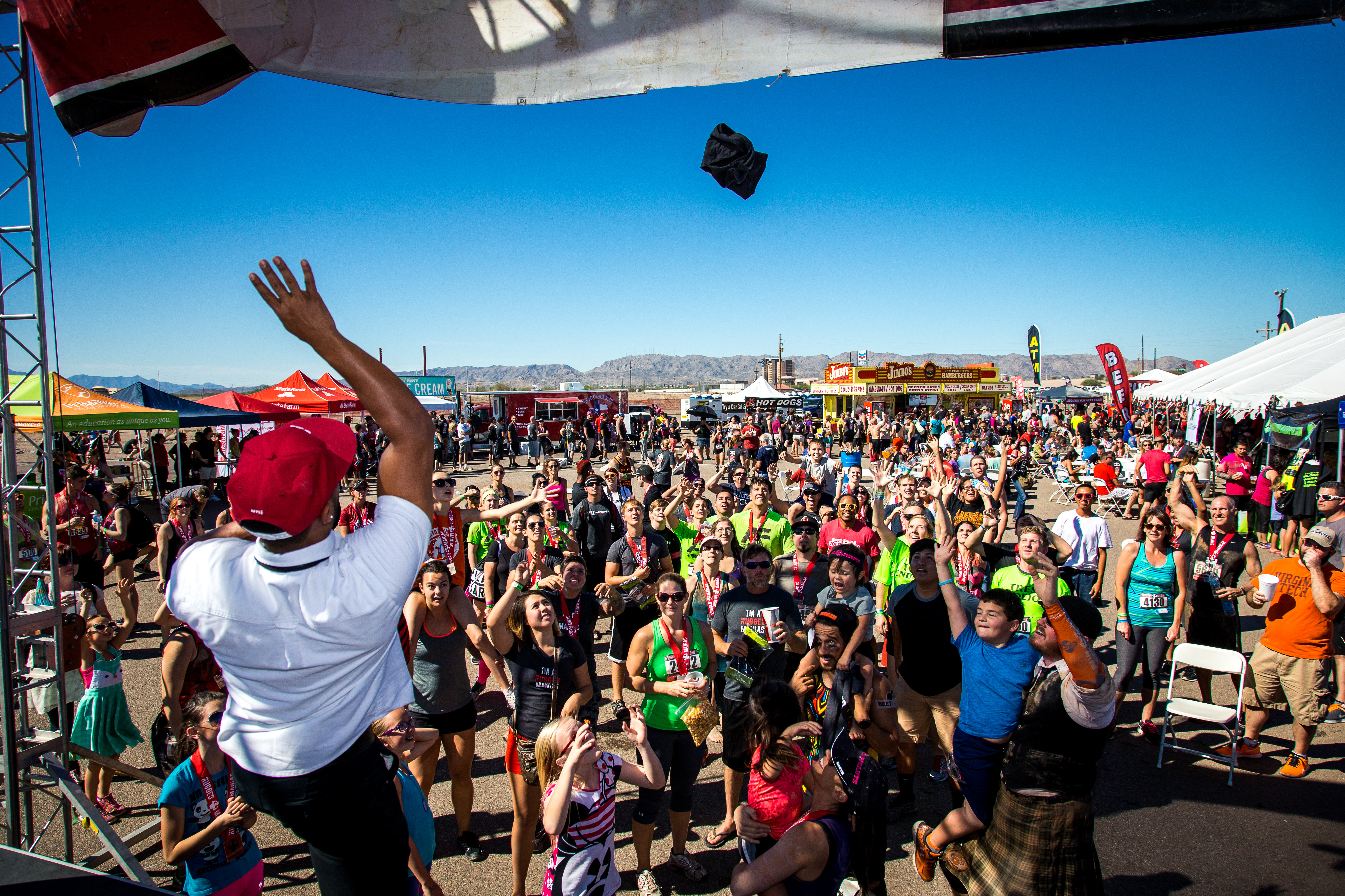 Festival